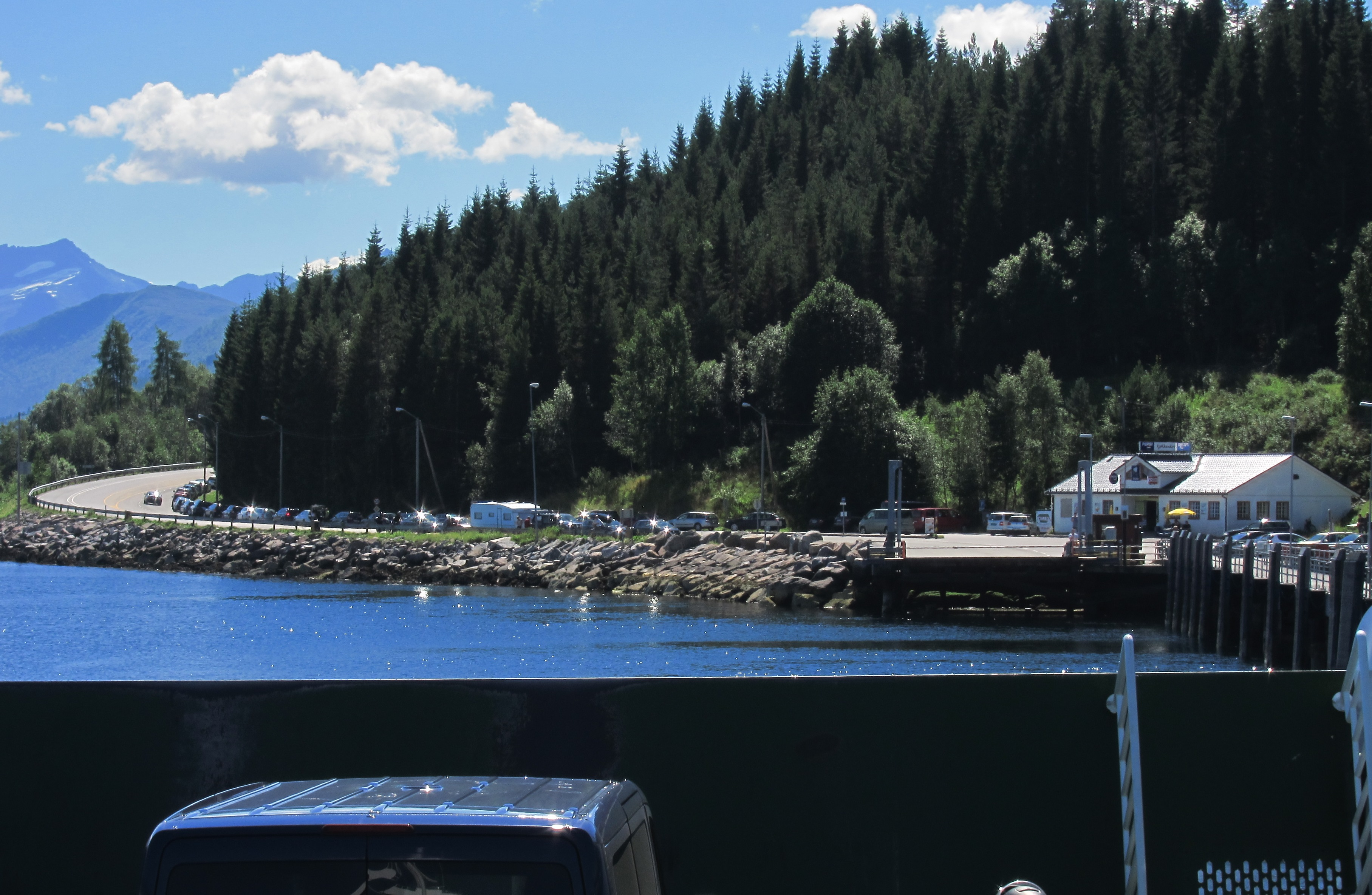 Vestnes ferry dock, seen from arriving ferry.